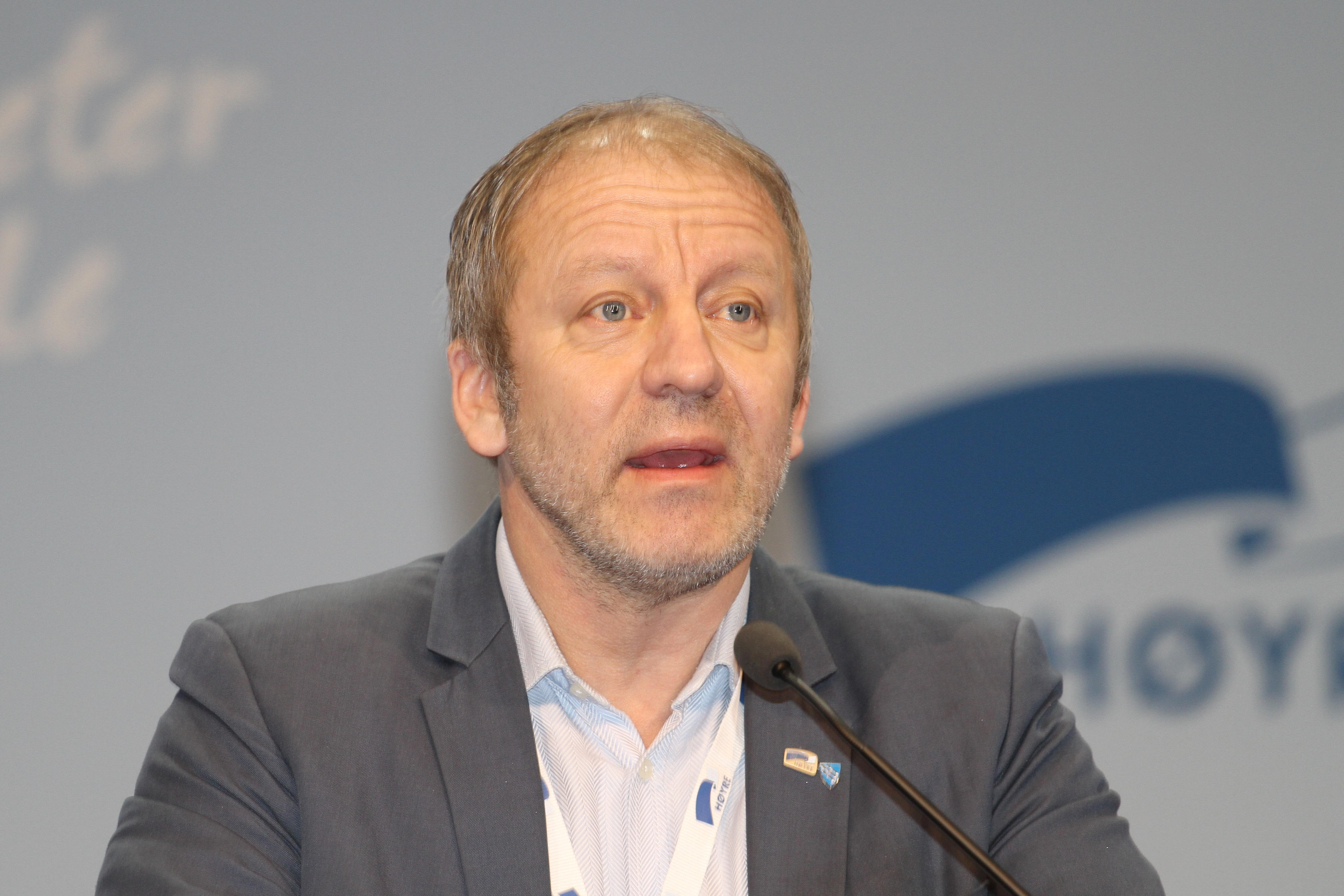 Geir-Inge Sivertsen